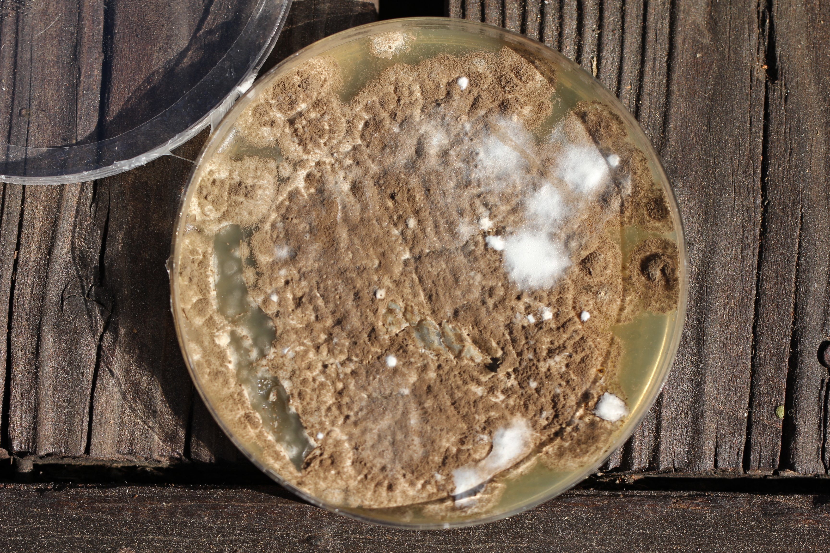 Penicillium brevicompactum, cultured from an orange tree and identified by sequencing the ITS gene and comparing with NCBI BLAST. From